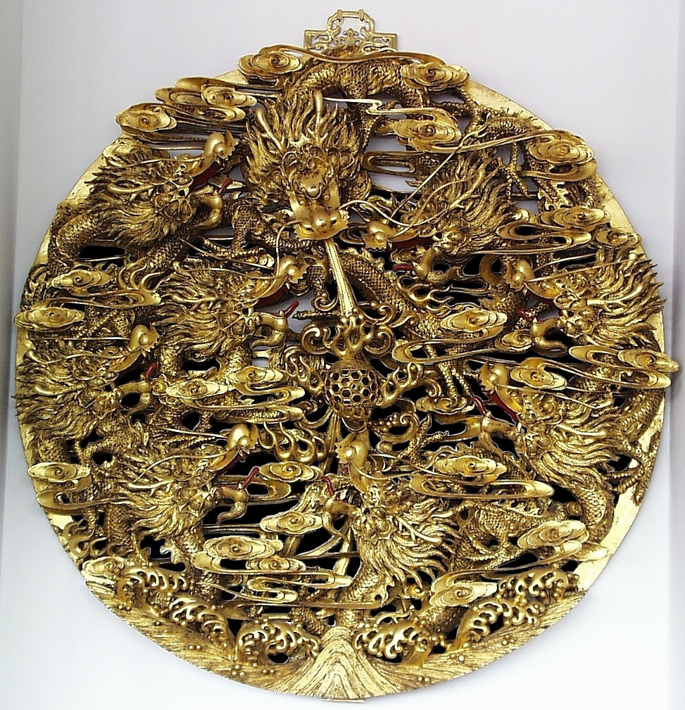 nine Chinese dragons from Kowloon in the East Asia Institute of Ludwigshafen in Germany